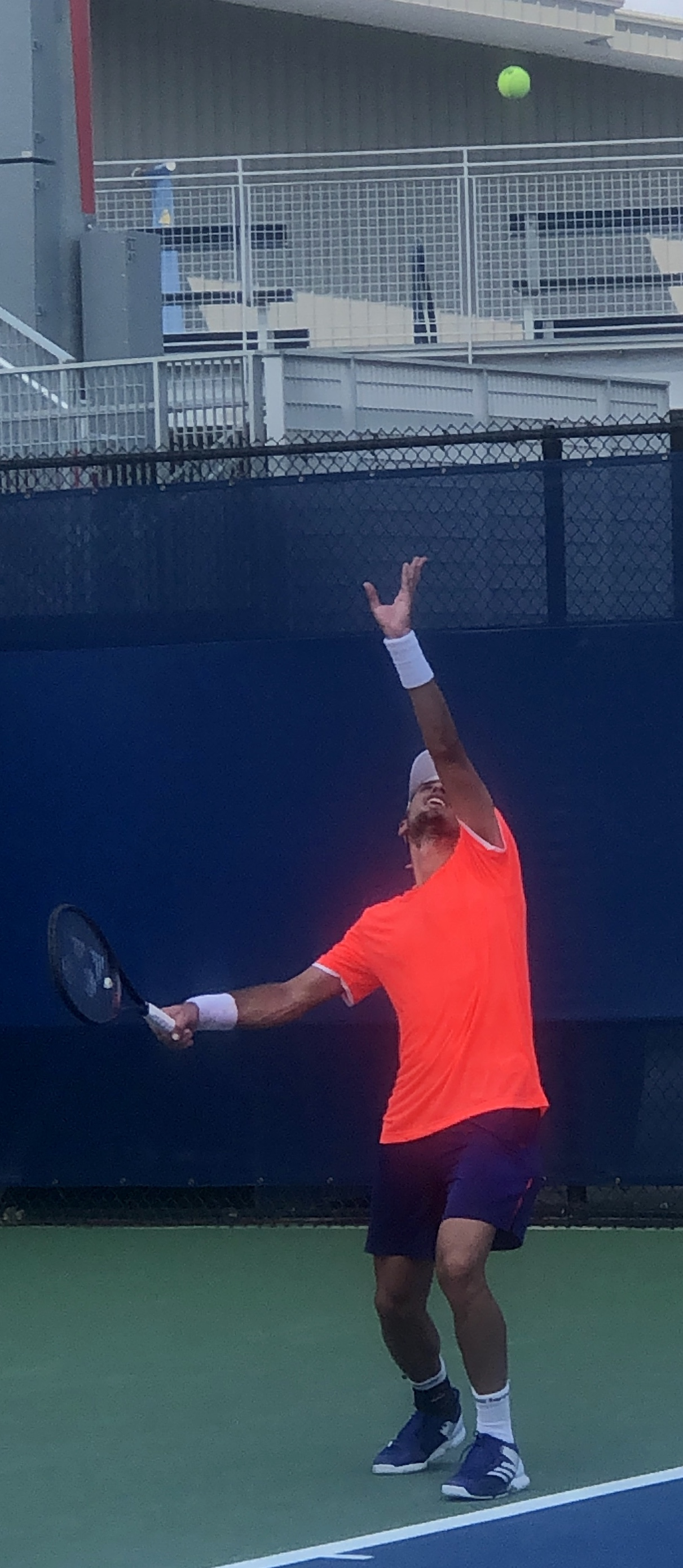 Pedro Cachín in the Men’s qualifying first round of the United States Open Championships 2019.